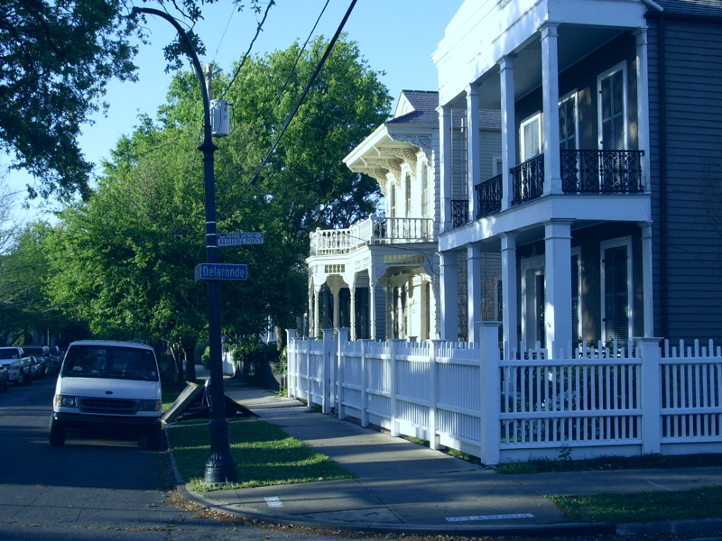 Late 19th-century homes on Olivier Street at the corner of Delaronde Street, looking south, in the Algiers Point neighborhood of New Orleans, Louisiana, U.S.A. At left is a Ford Econoline van. A small amount of storm debris can be seen piled on the grass to the right of the van. (Repairing homes damaged by Hurricane Katrina the previous year was an ongoing process.) The street lamp is broken. Photo taken by Muffuletta in early 2006.